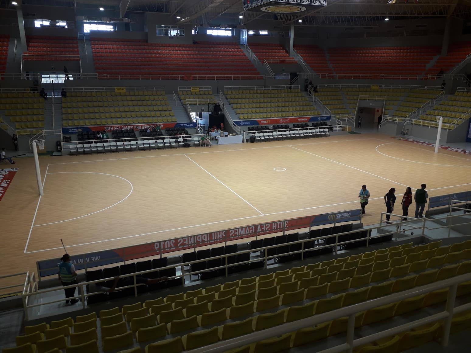 The Netball Court in the Sta. Rosa Sports Complex, (Photo by Joy Gabrido/PIA4A)